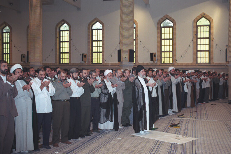 Basiji Students meeting with Supreme Leader of Iran, Ali Khamenei - September 4, 1999